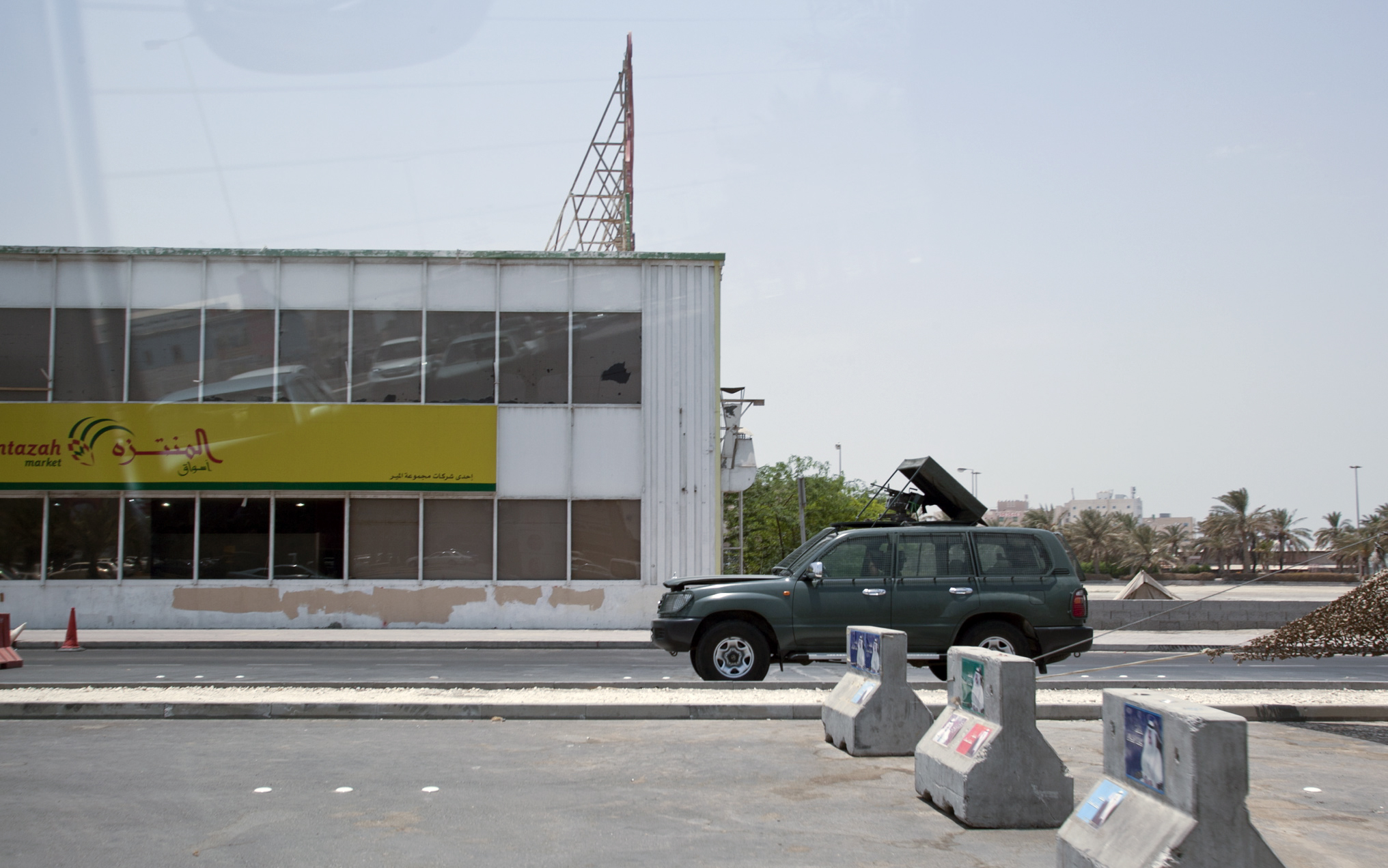 Army checkpoints surround the area were Pearl Roundabout was located in Manama